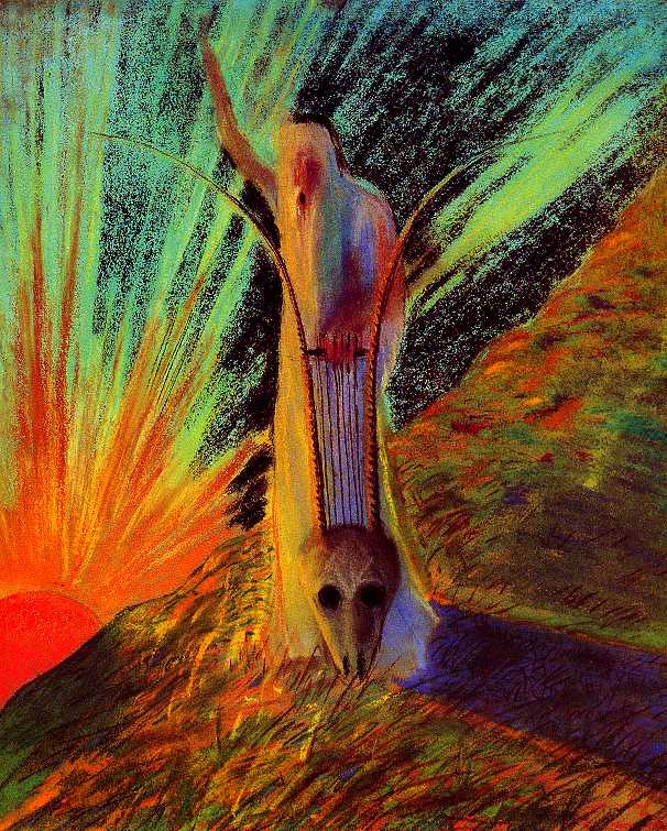 Morning. Fantasy (Rytas. Fantazija), painting - Cycle Enchanted City (Užburtas miestas)